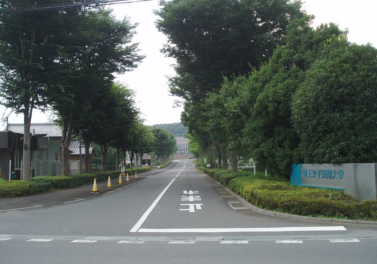 Main entrance to Saitama Women's Junior College located in Hidaka, Saitama, Japan.